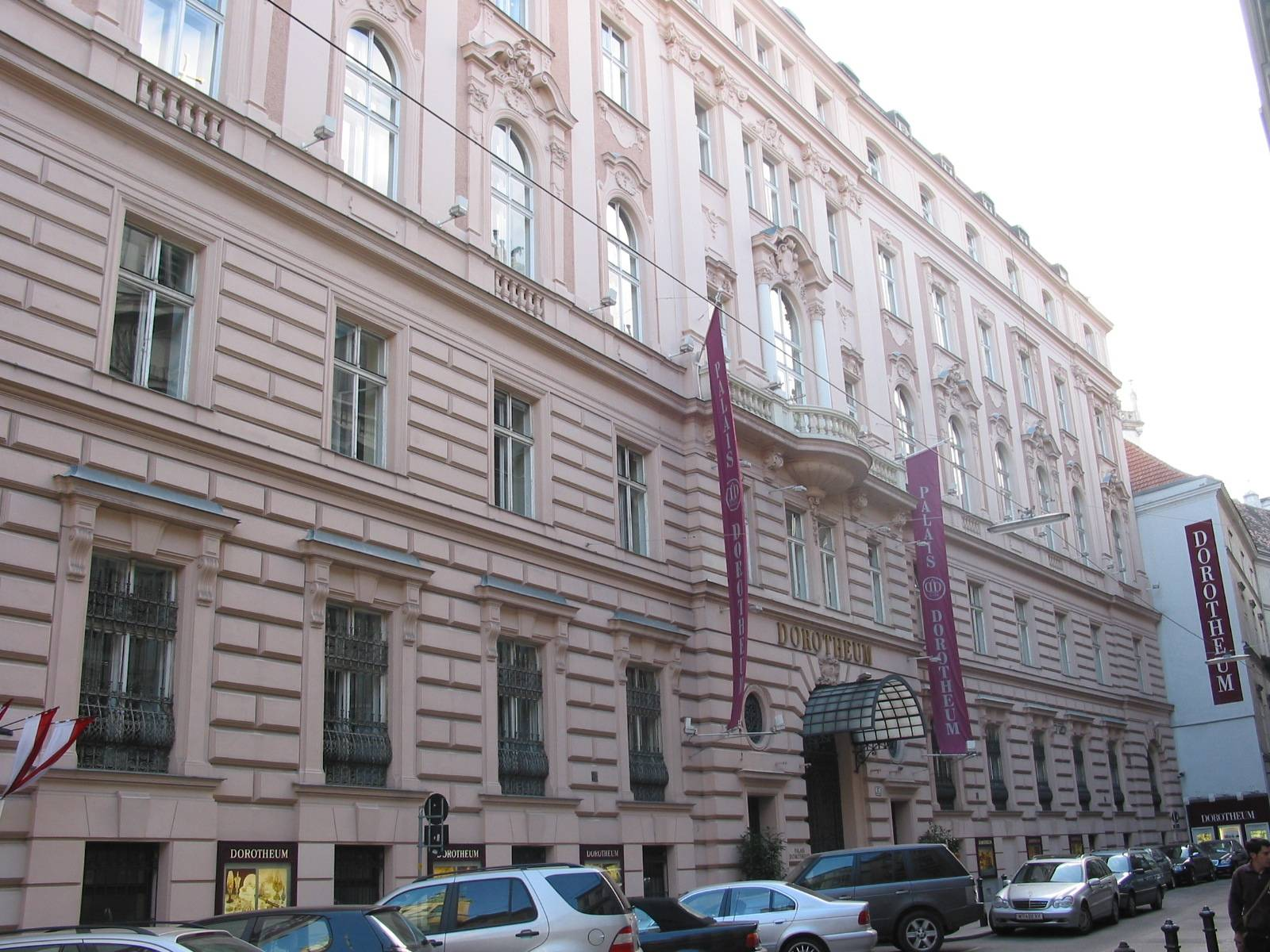 Dorotheum, Vienna, 2005-10-16 selfmade photo